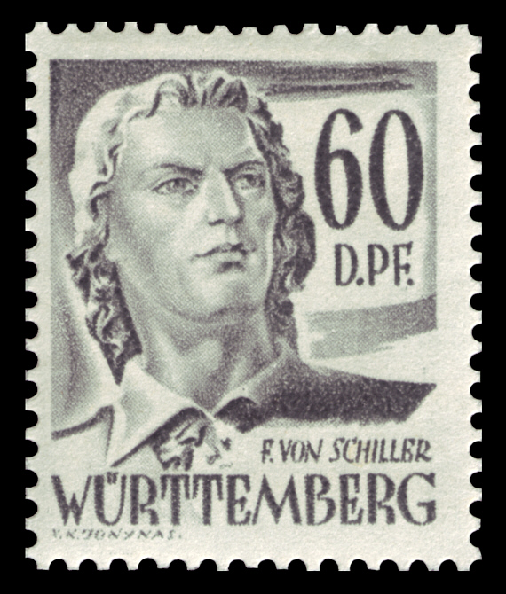 French occupied zone, Württemberg-Hohenzollern, persons and views of Württemberg-Hohenzollern (II) Ausgabepreis: 60 Pfennig First Day of Issue / Erstausgabetag: August 1948 Michel-Katalog-Nr: 25 (Französische Besetzungszone, Württemberg-Hohenzollern)